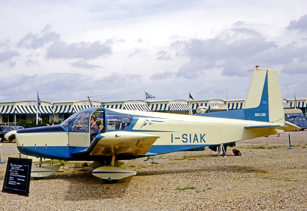 The prototype SIAI S-205 18F T-SIAK displayed at the Paris Air Show in June 1965